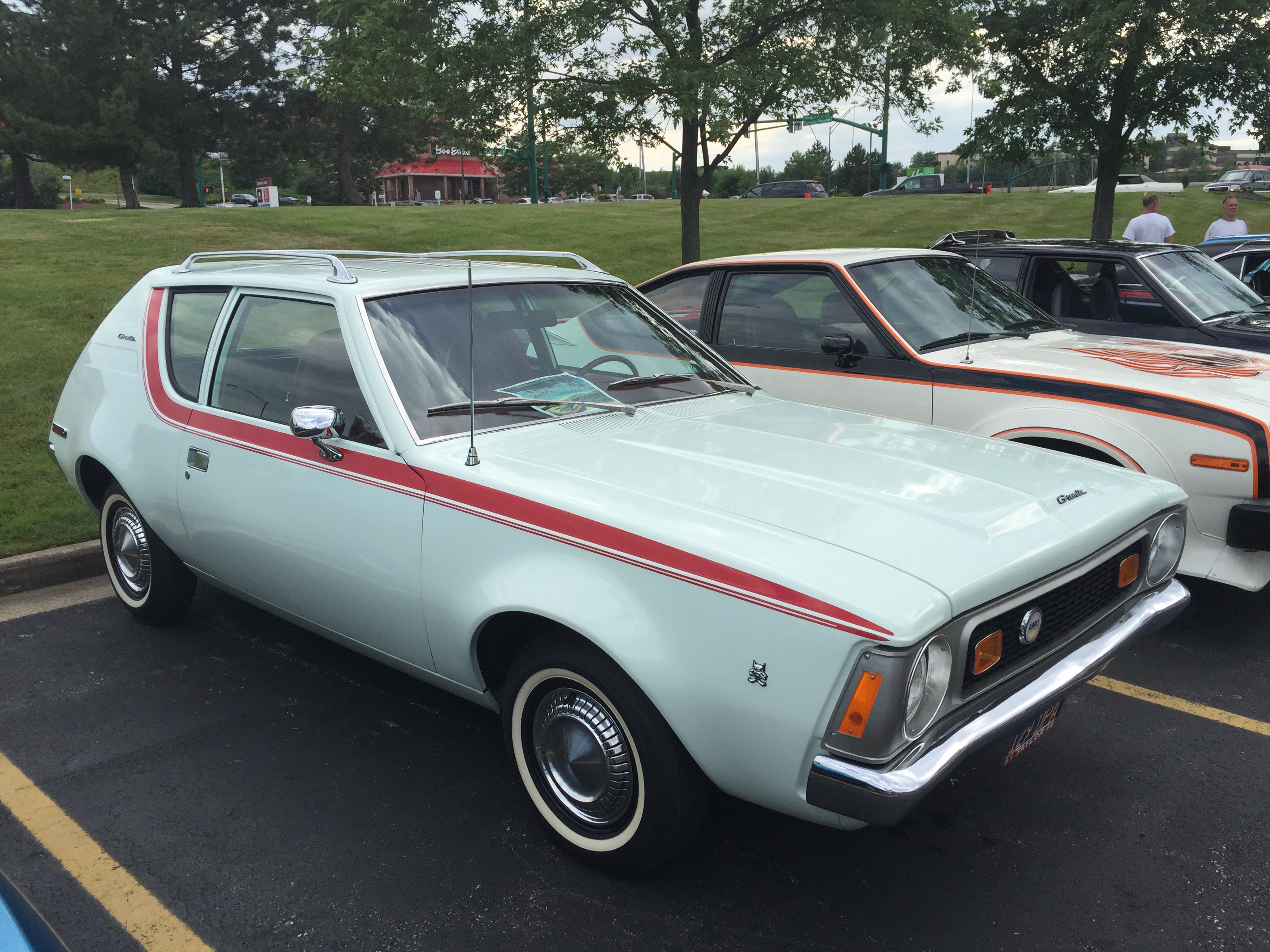 1971 AMC Gremlin, a low priced (suggested base price of $1,999.00) and an economical subcompact built by American Motors Corporation (AMC). This car is in original factory condition and is finished in Snow White with red "rally" side stripes. It has the Custom Interior package in red that includes the high back bucket front seats. It has the optional 258 cu. in. (4.2 L) I6 engine with a 3-speed manual floor shift. It was also ordered from the factory with power steering, power brakes, AM radio, luggage rack, tinted glass, full wheel covers, and a heavy-duty battery. Total suggested retail price was $2694.50, including the transportation charges. It was sold by Taylor Motors in Redding, California. The car has been upgraded to whitewall tires. Picture taken during the American Motors Owners Association (AMO) annual convention that was held July 2015 near Cleveland, Ohio.